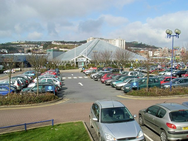 Plantasia, Parc Tawe Plantasia is the pyramidal glasshouse in the centre of the photograph and is located within the Parc Tawe retail and leisure park. The photograph was taken on a busy saturday morning. Most of the local population were doing their shopping in the morning, allowing the afternoon to be free to watch Wales beating England in the Six Nations rugby!